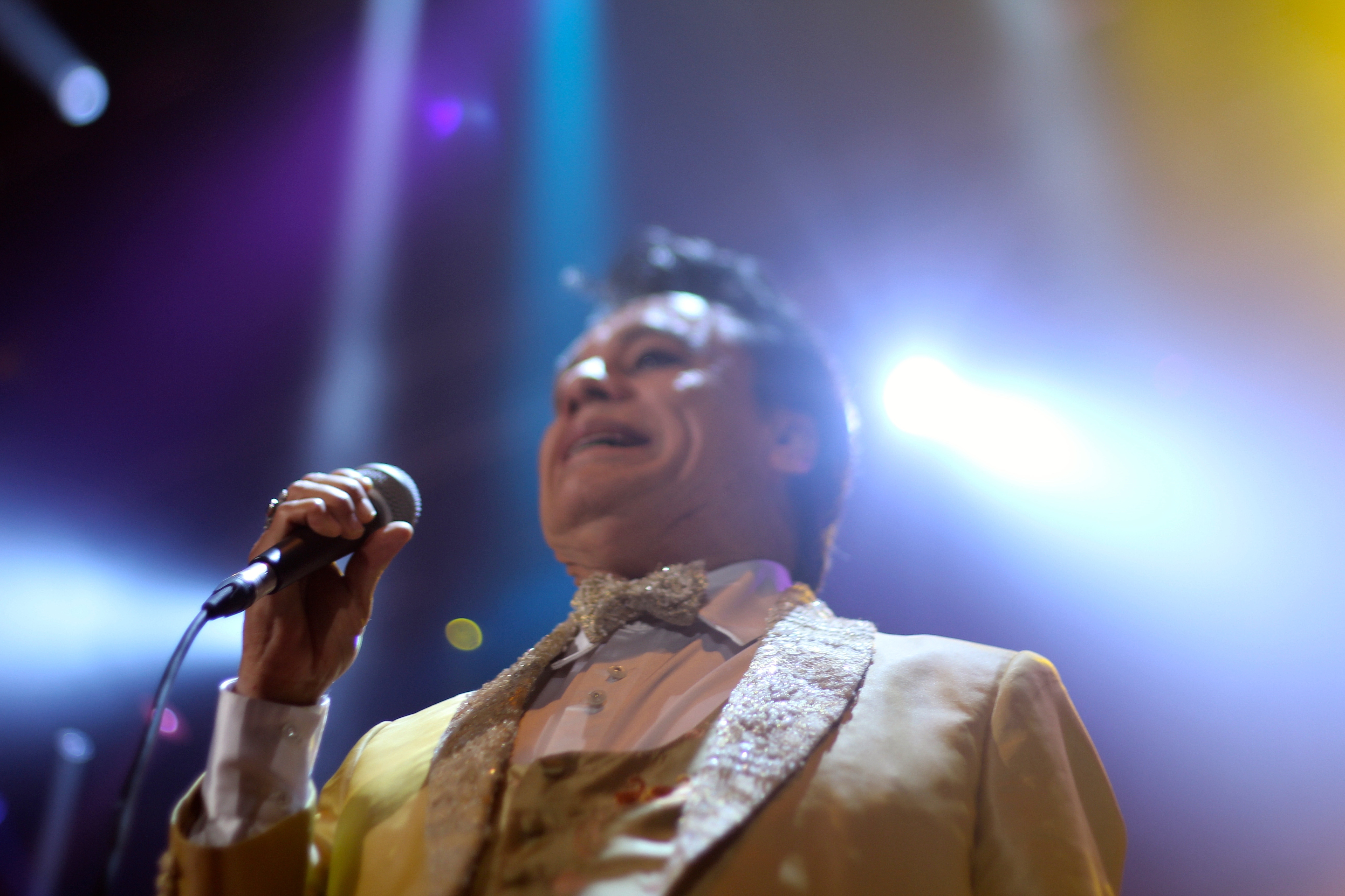 Juan Gabriel ::: Pepsi Center ::: 09.26.14